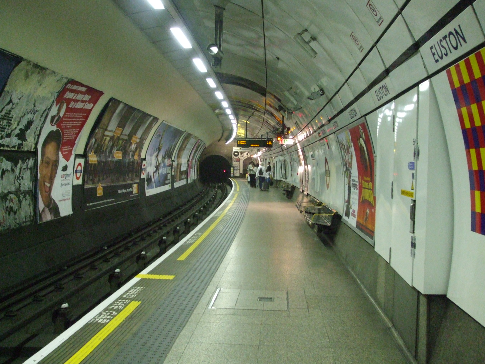 Euston tube station Northern Line Charing Cross branch northbound platform looking north